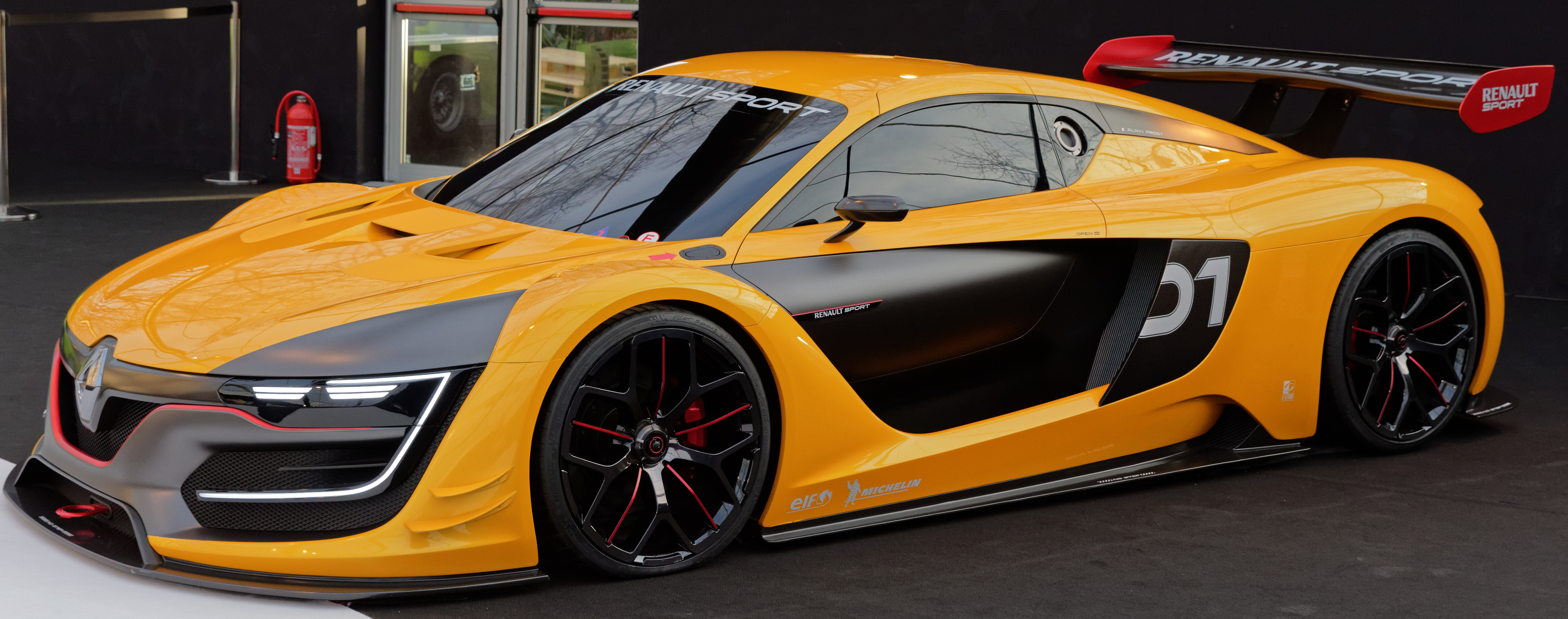 Renault Sport RS 01 cropped